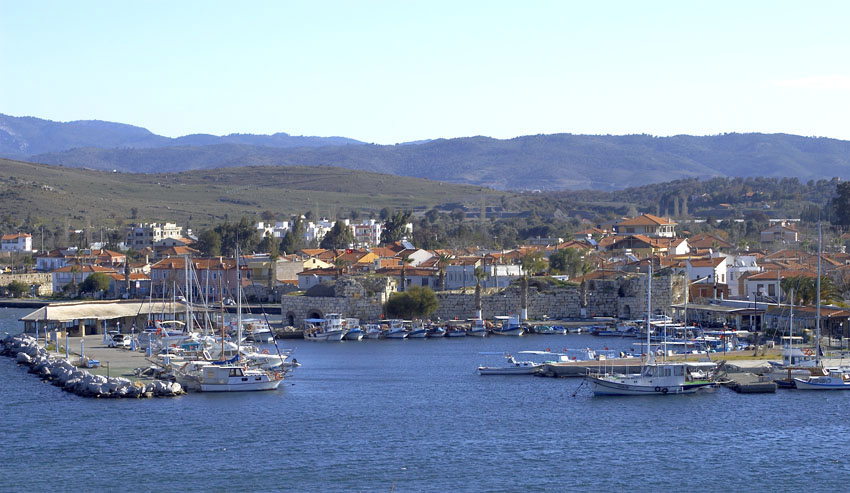 Sığacık yat limanı ve kalesi.